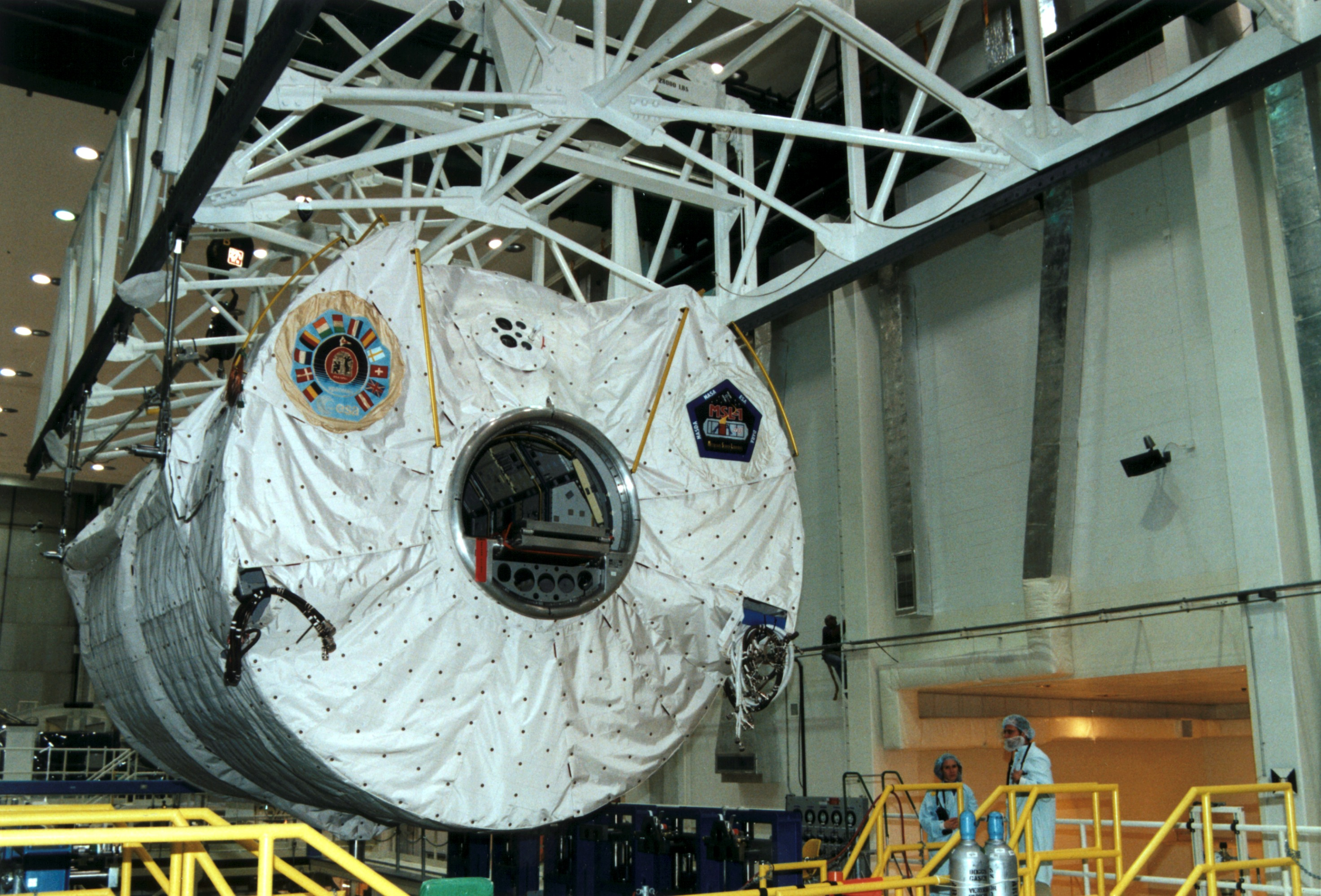 S97E00830 (30 January 1997) --- The Microgravity Science Laboratory 1 (MSL-1) Spacelab Module is moved to be installed into a payload canister in the Operations and Checkout Building. Once on the canister, the MSL-1 will be transported to Orbiter Processing Bay 1 where it will be integrated into the payload bay of the Space Shuttle Columbia. During the scheduled 16-day mission, the MSL-1 will be used to test some of the hardware, facilities and procedures that are planned for use on the International Space Station (ISS) while the flight crew conducts combustion, Protein Crystal Growth (PCG) and materials processing experiments.